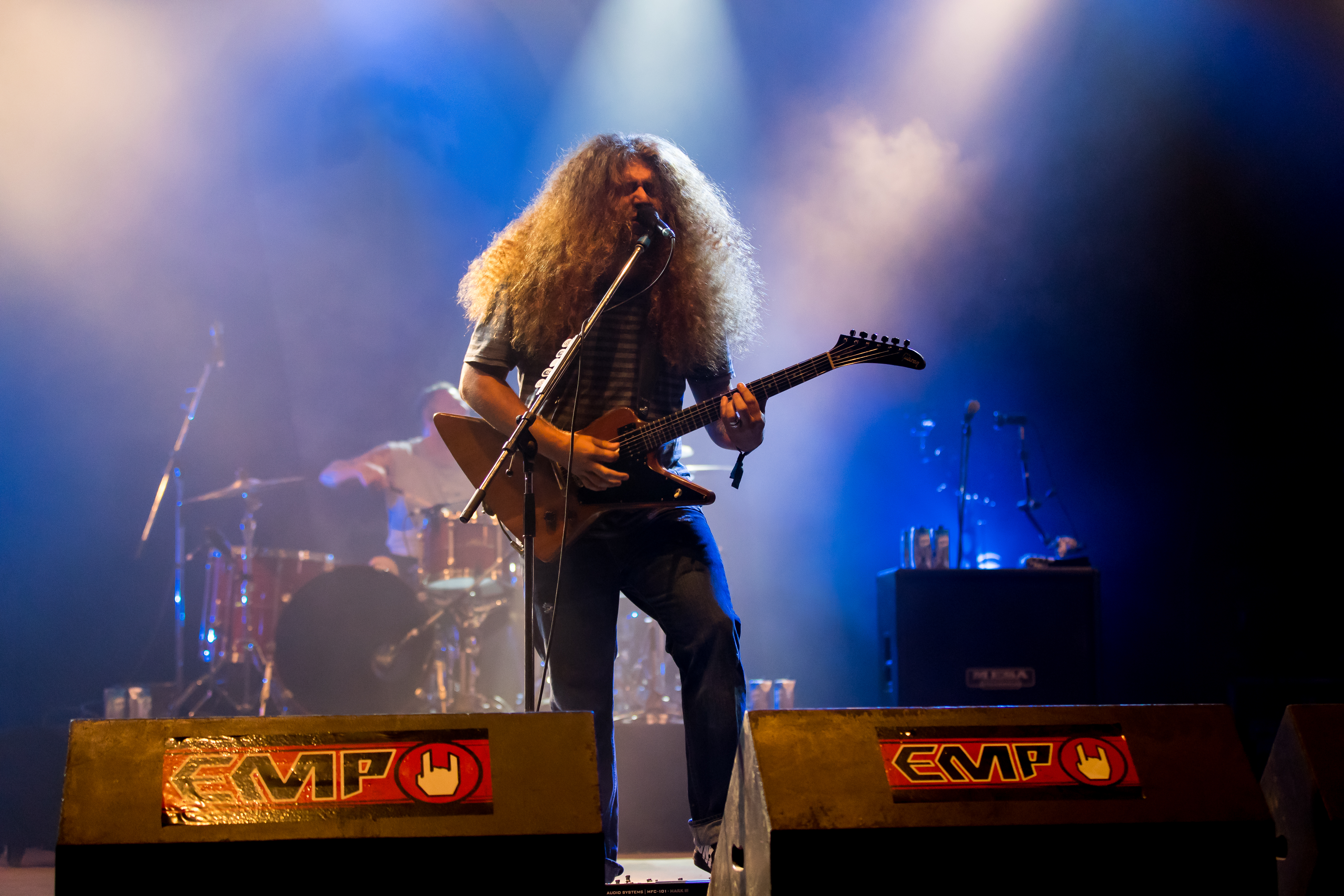 Coheed and Cambria during Summer Breeze 2016 at , Dinkelsbühl, Bayern, Germany on 2016-08-19, Photo: Sven Mandel